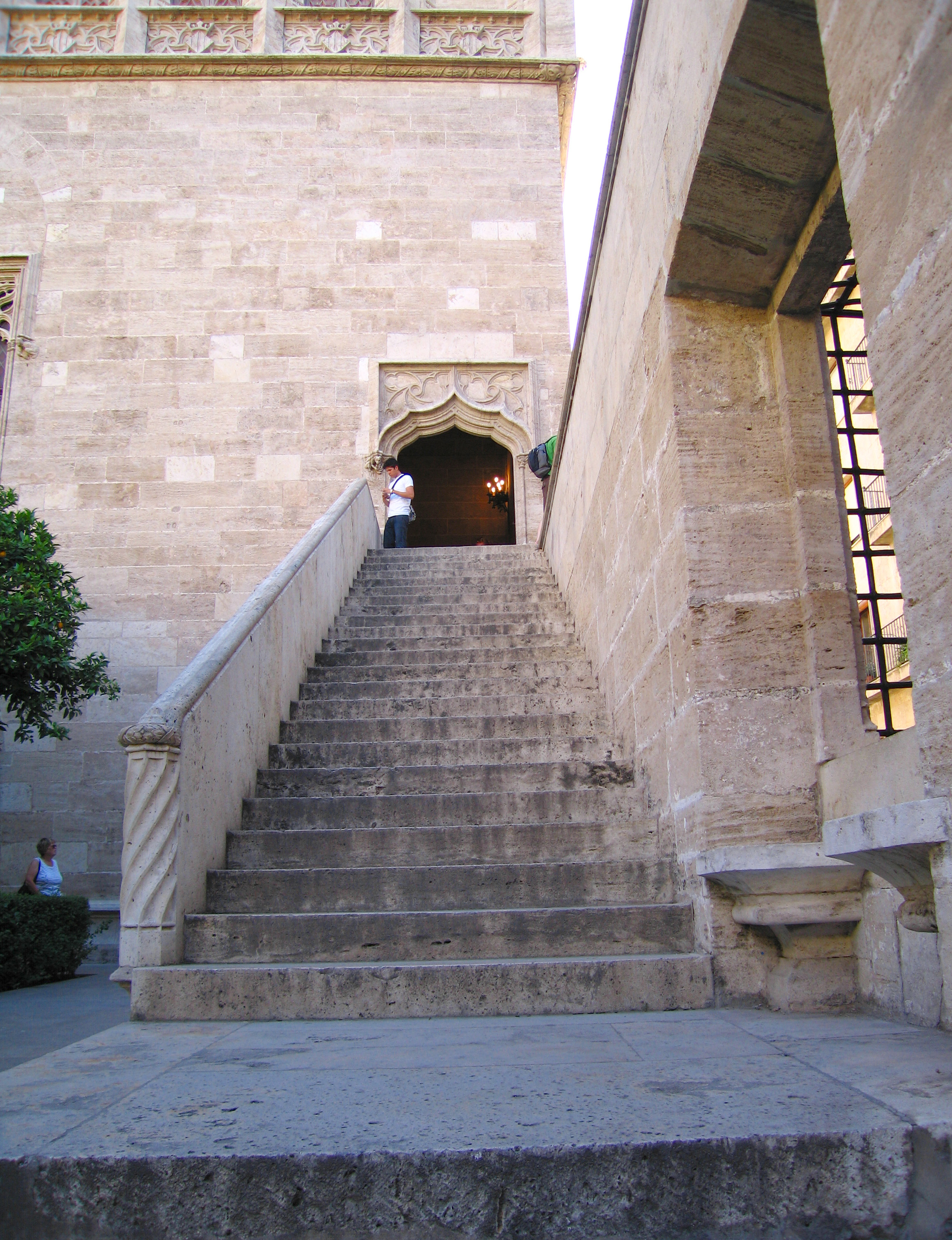 Escala de la Llotja de València